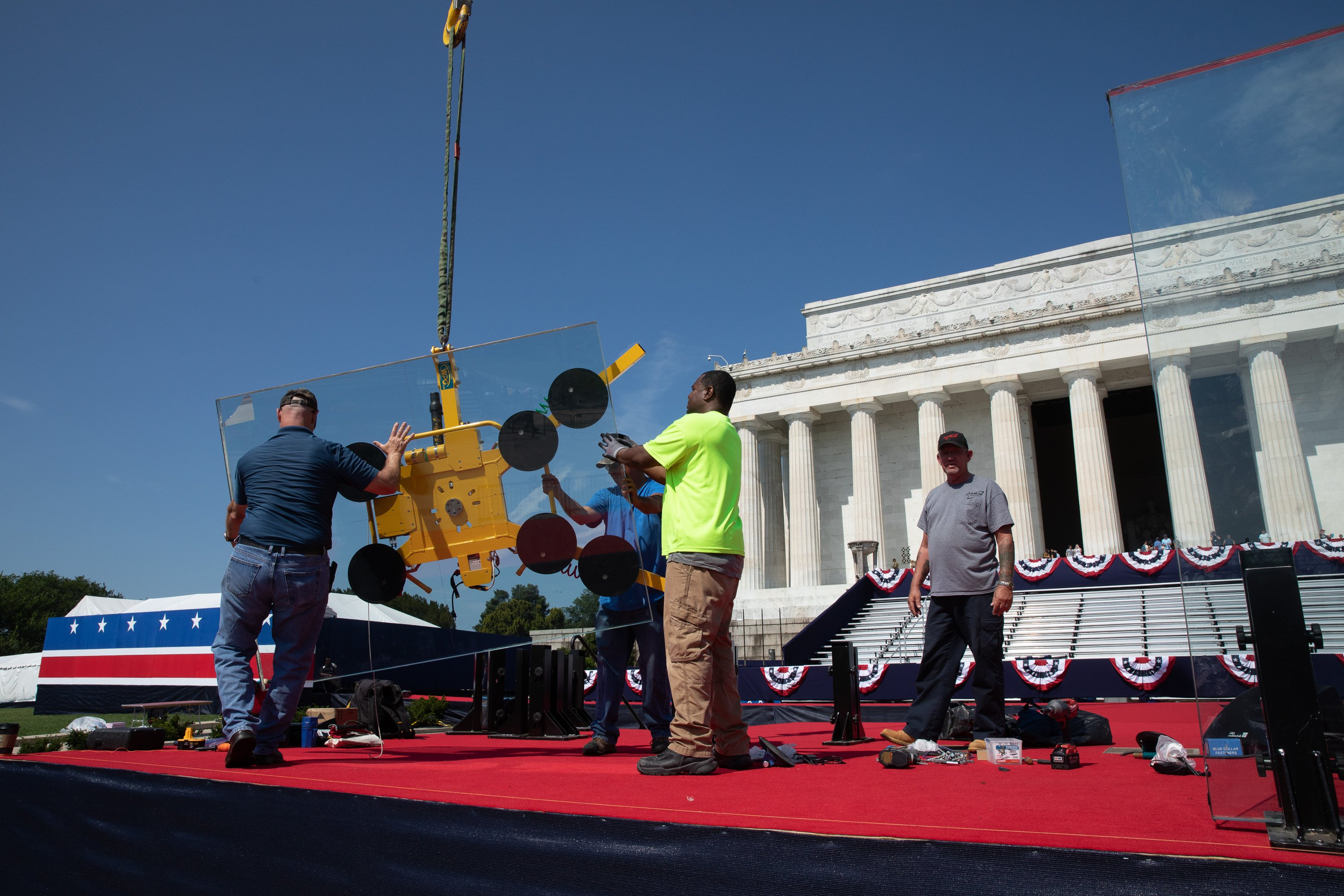 Workers preparing for Independence Day Event: Salute to America